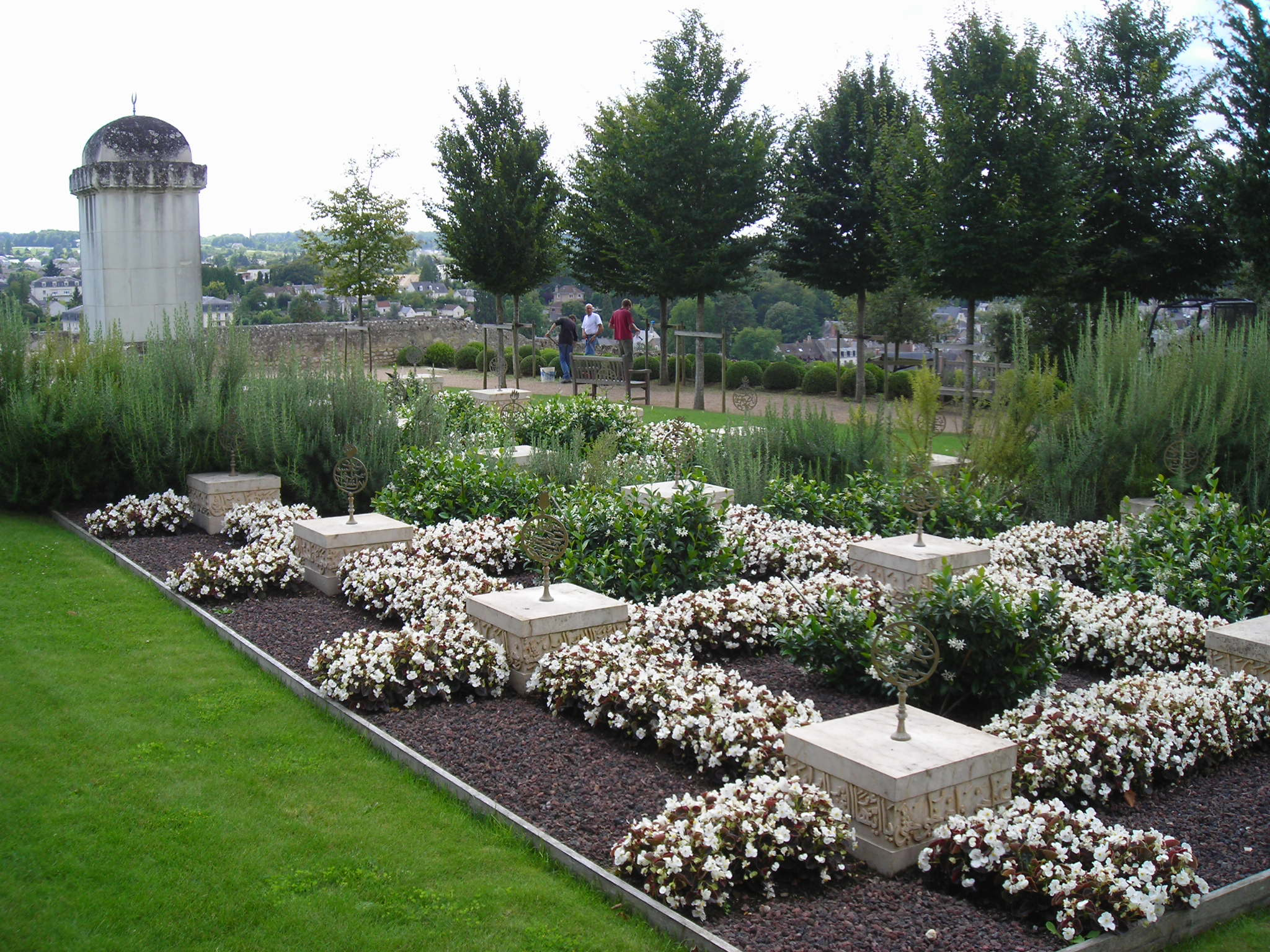 Abd El-Kader monument in Amboise, in the castle's park